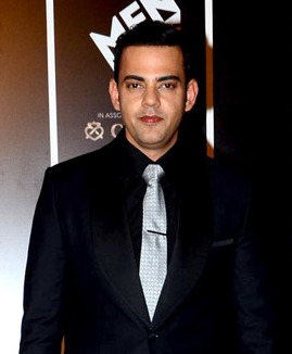 Cyrus Sahukar at the red carpet of GQ Men of The Year Awards 2016